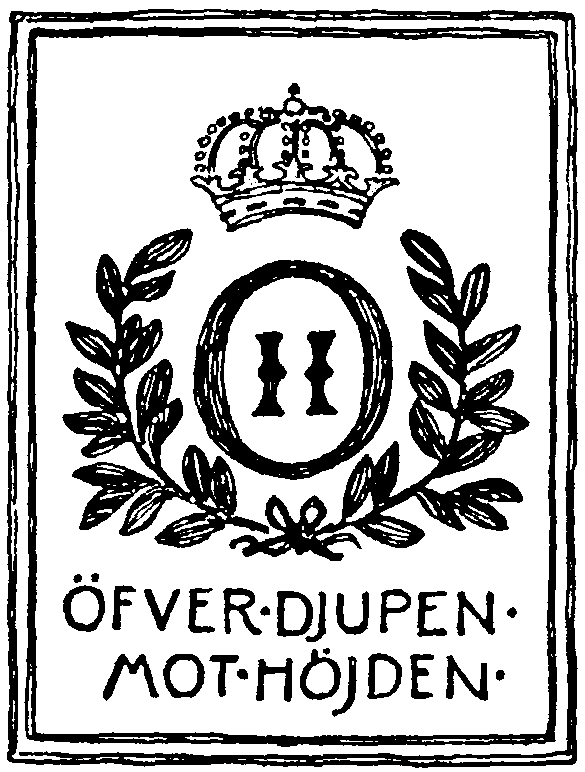 Oscar II of Swedens Ex libris. literal translation: "Over the deep towards the height."